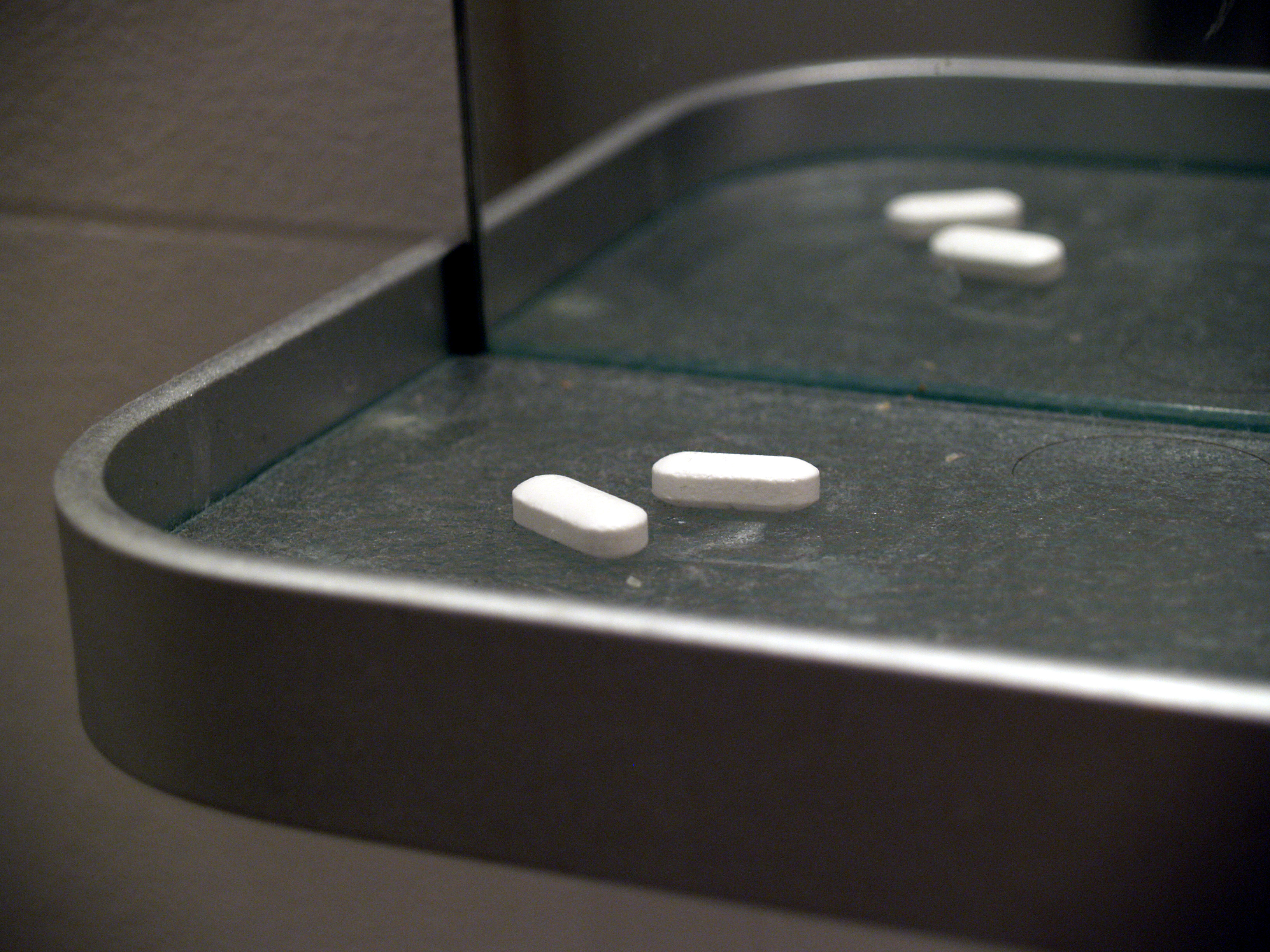 Pinex (trade name for paracetamol in Denmark) pills